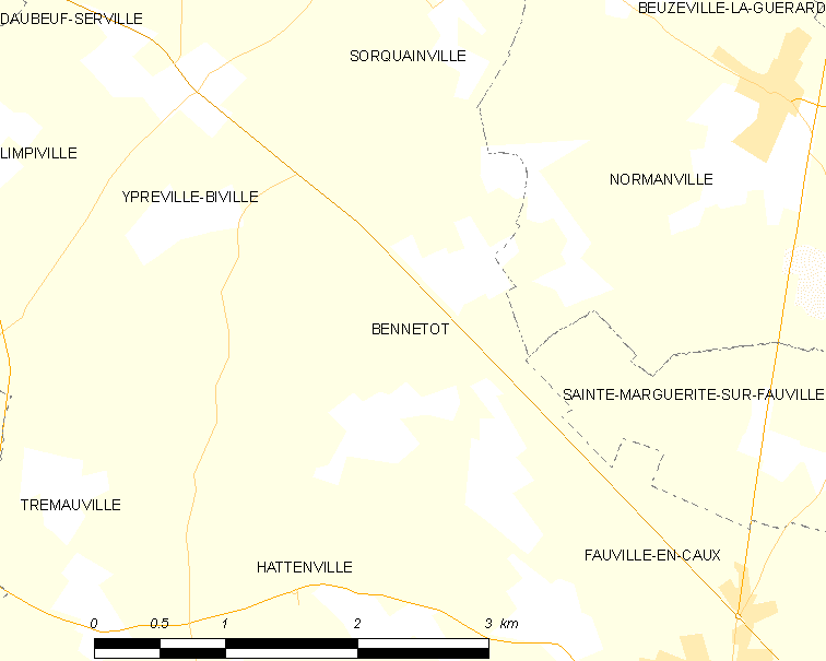 Map of French municipality Bennetot